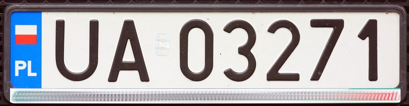 Polish military registration plate (series 2000-2006)